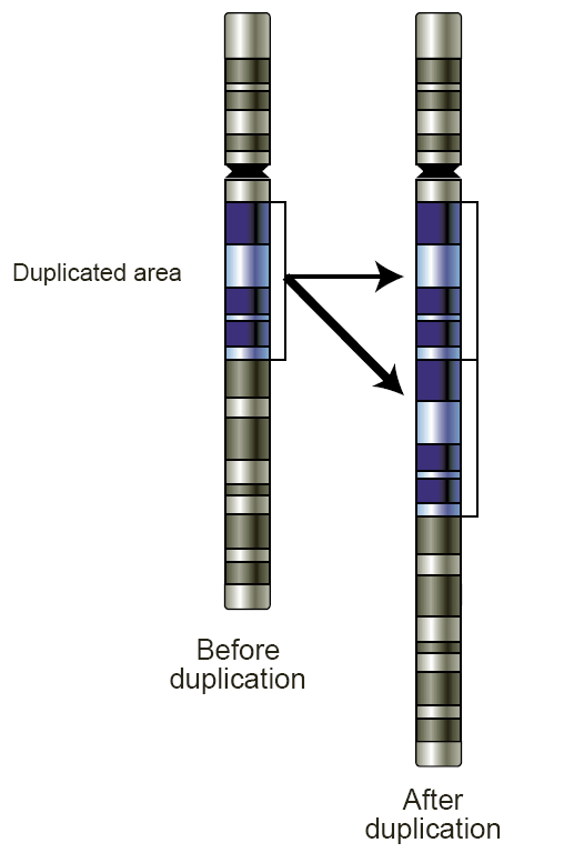 Drawing showing what happens in gene duplication. From [1]